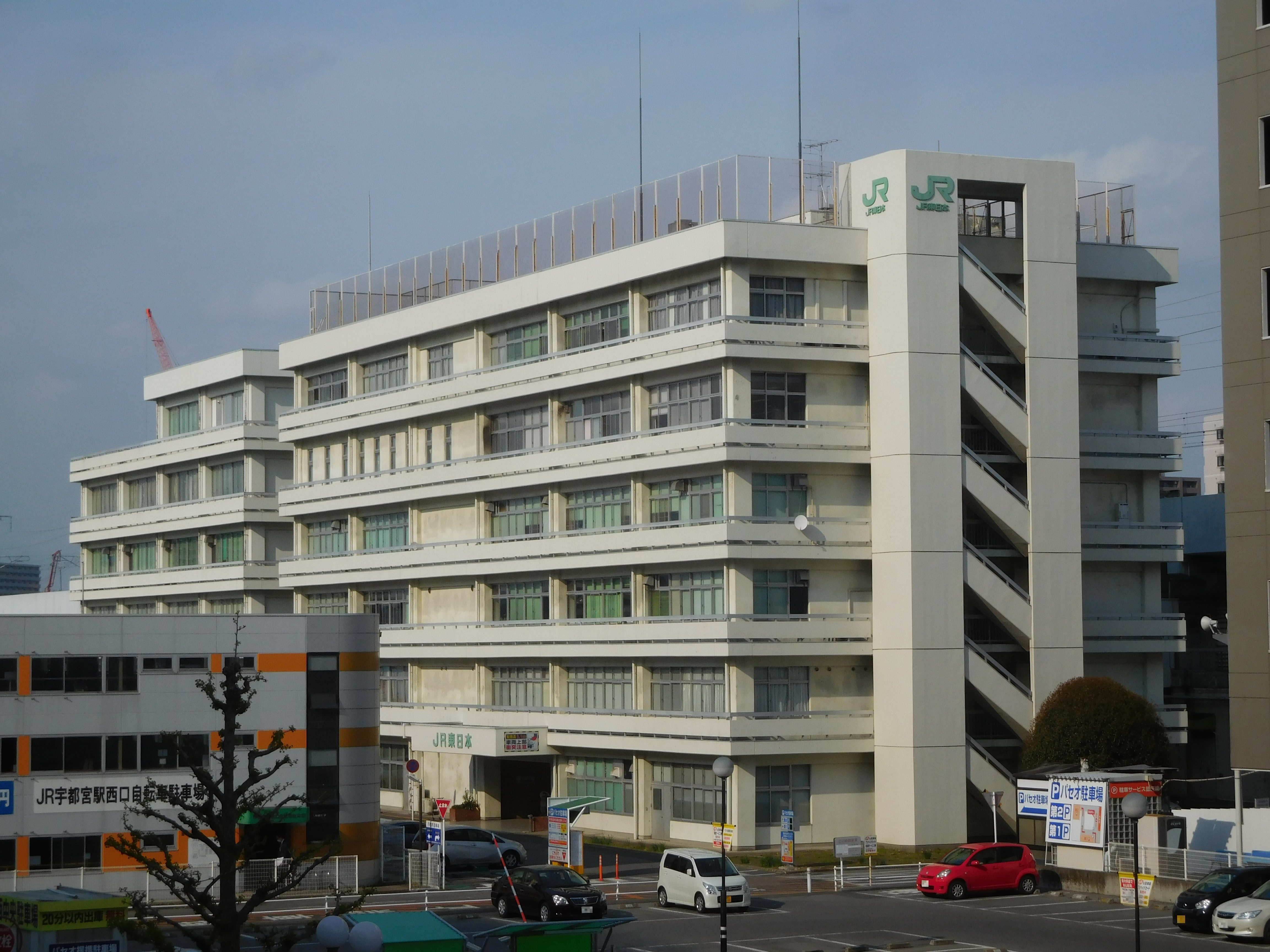 This is JR East Utsunomiya 1st General Office in front of JR Utsunomiya station, City of Utsunomiya, Tochigi prefecture, Japan.